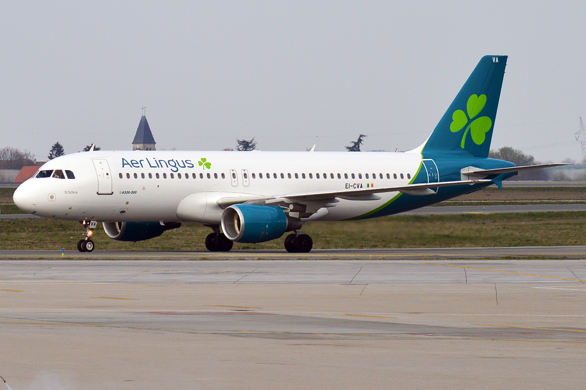 Aer Lingus, EI-CVA, Airbus A320-214